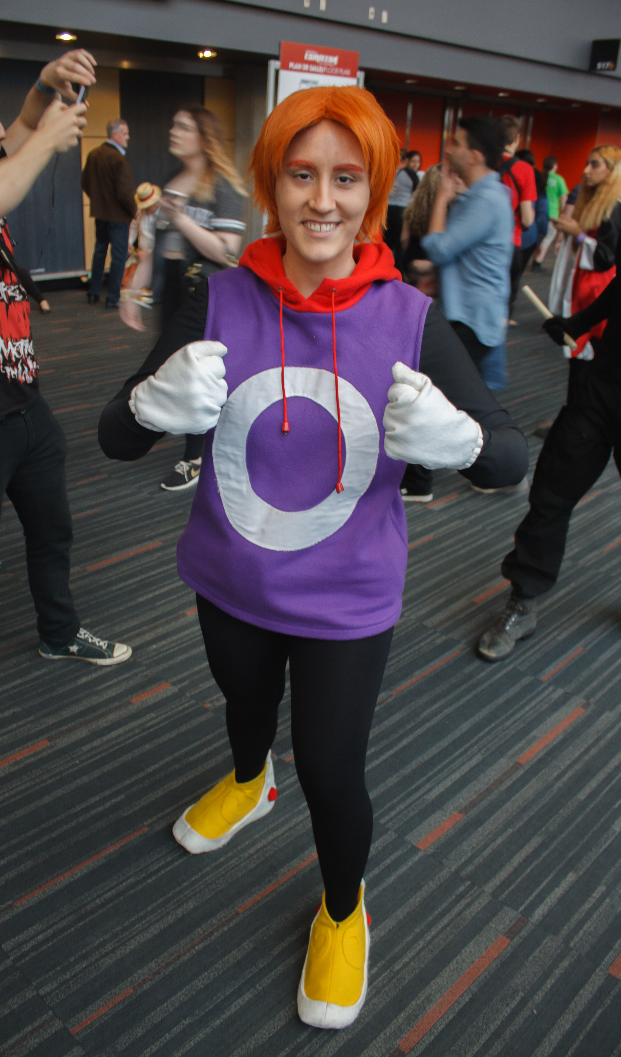 Cosplay on Saturday, day two, of the Montreal Comiccon 2016.